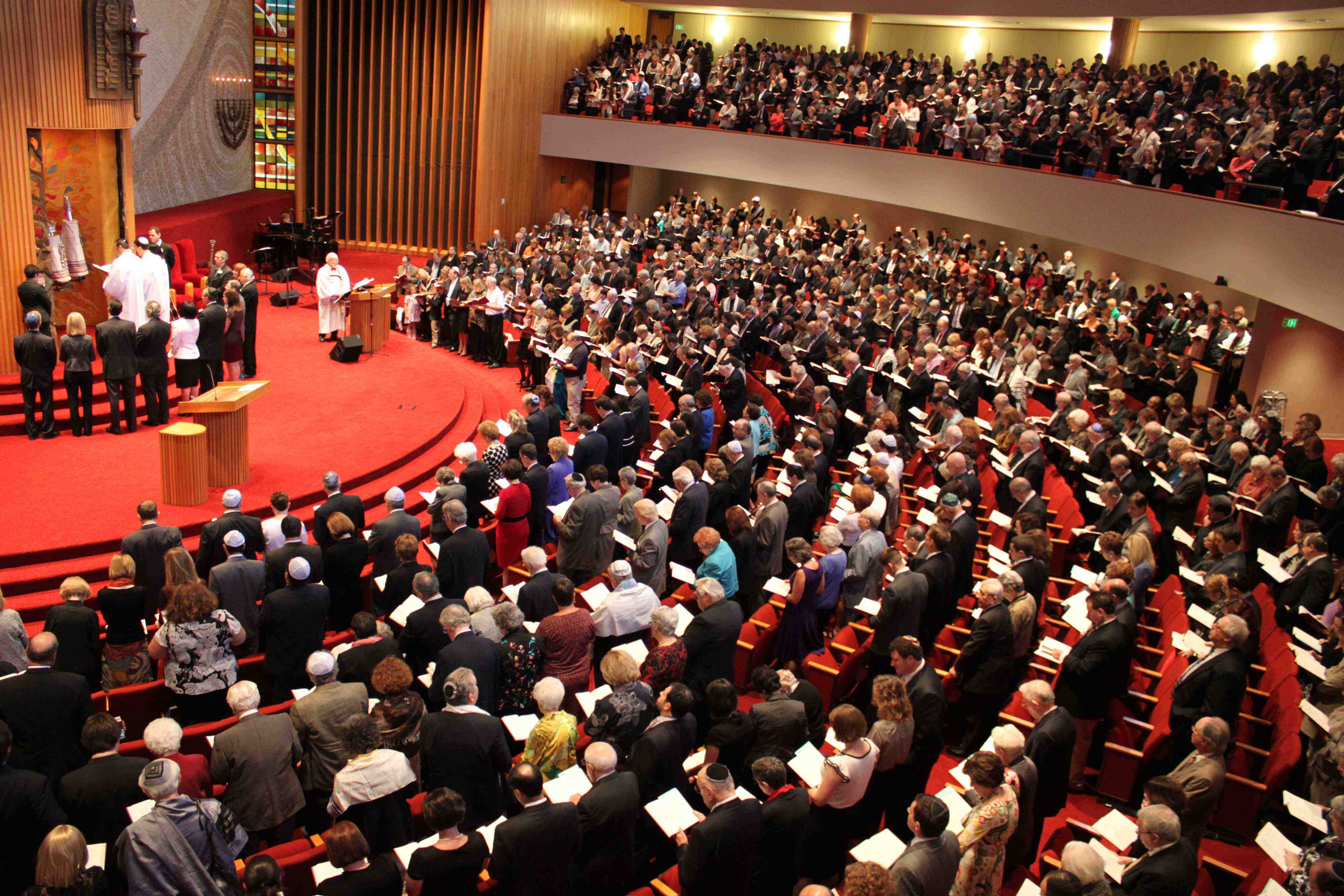 Sanctuary, Temple Israel (Memphis, Tennessee)